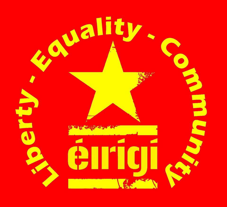 Logo for Irish Socialist-Republican political party, Éirígí - For A New Republic, new red and yellow star logo with the words Liberty, Equality and Community added.